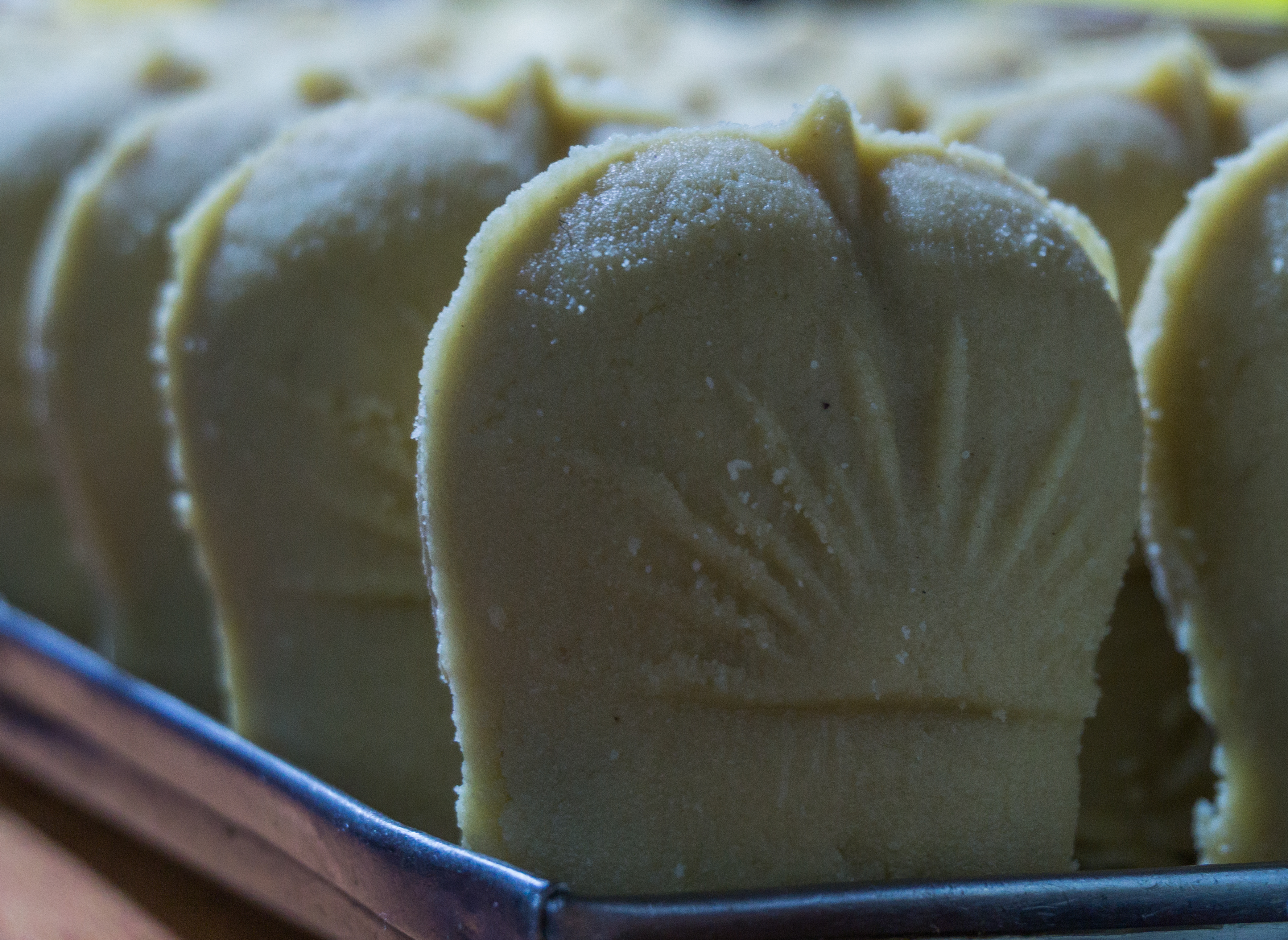 Jolbhora Sondesh of Surya Modak, Chandannagar. This Bengali sweet is made with Chhana or Bengali cottage cheese with a filling of rose water or date palm jaggery during winters.